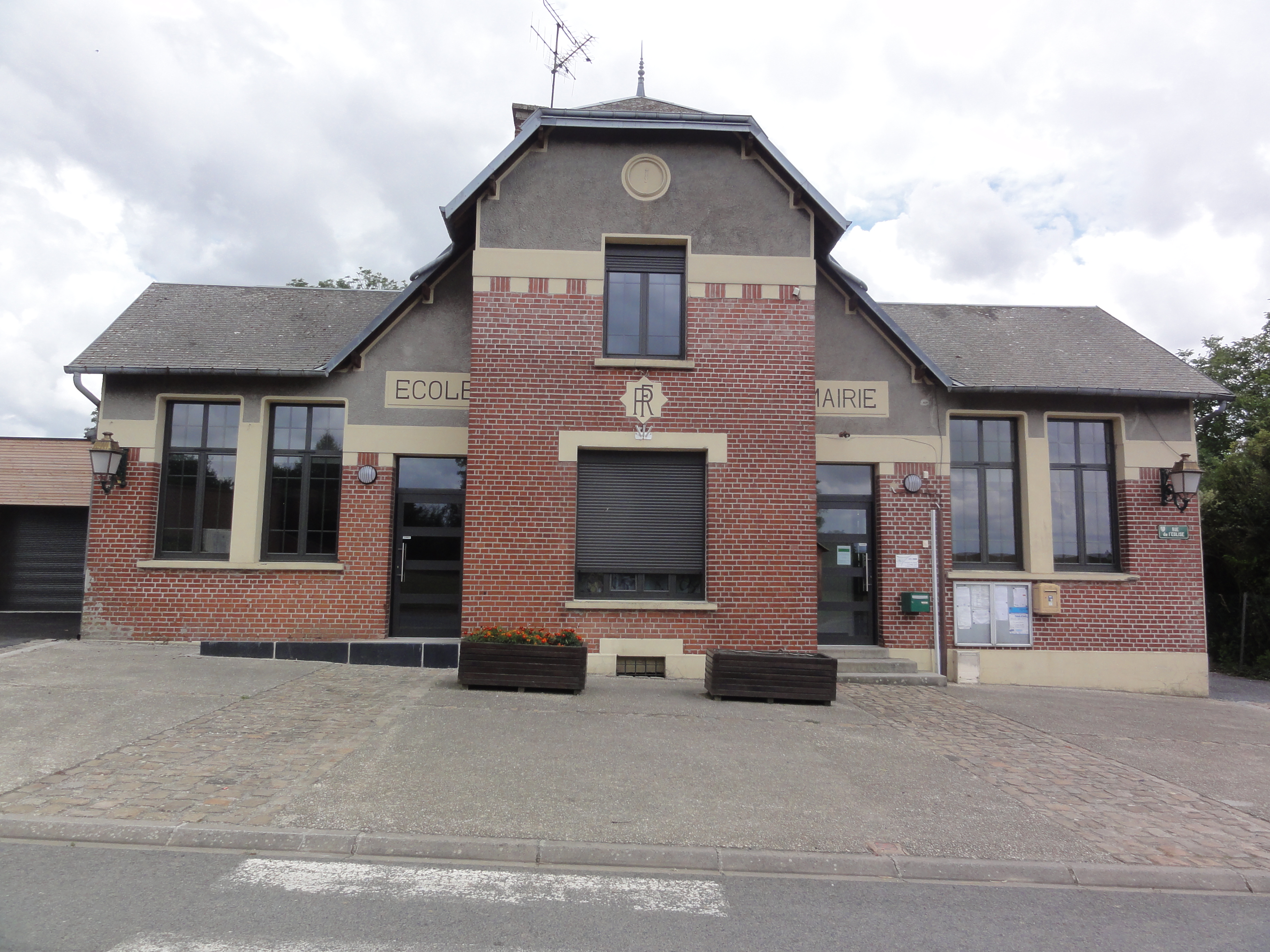 Bray-Saint-Christophe (Aisne) mairie - école